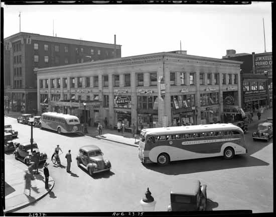 Bus depot at SE Dunsmuir and Seymour